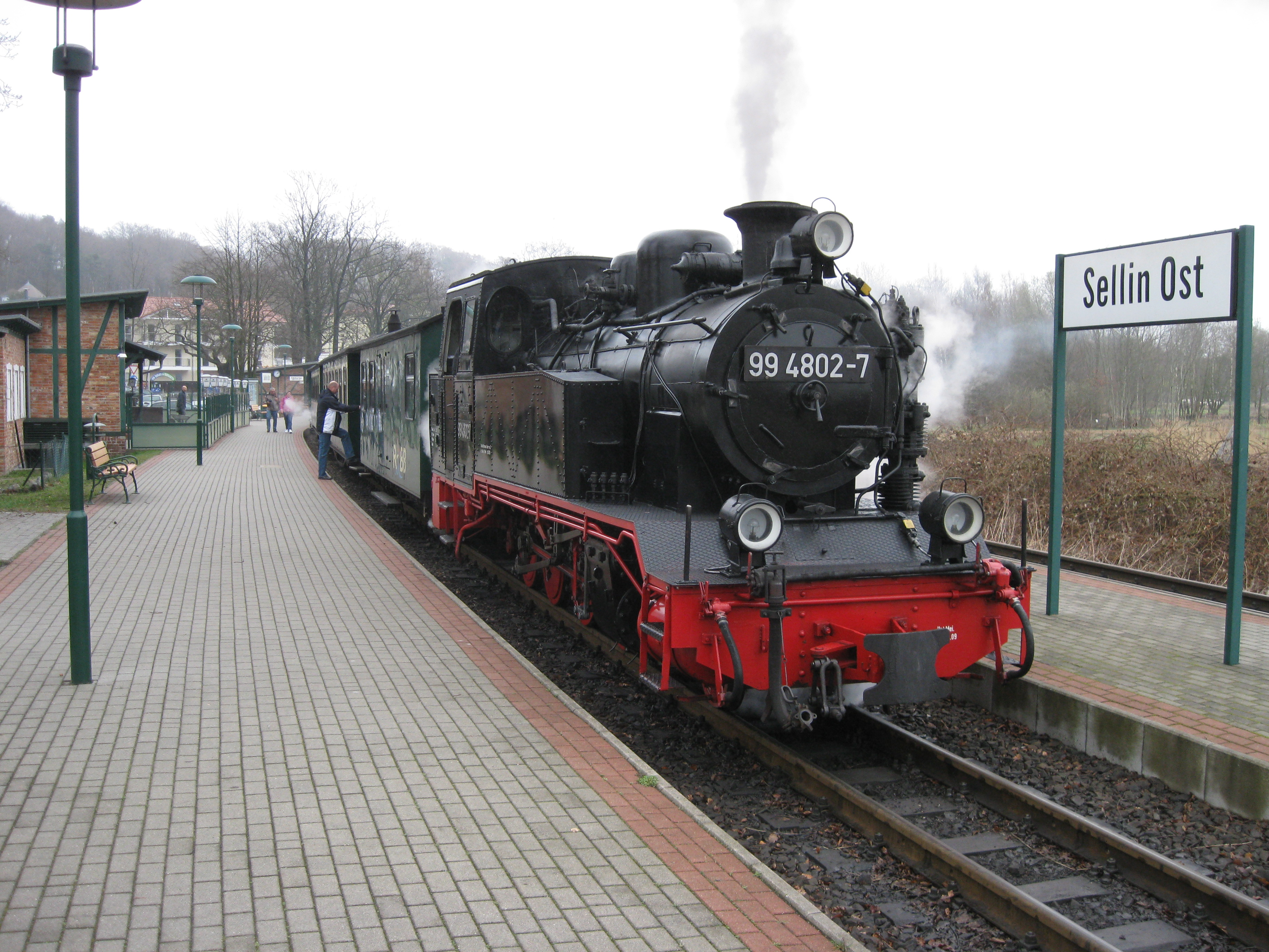 The railway station Sellin Ost, Rügen, Mecklenburg-Vorpommern